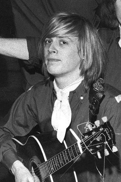 The English guitarist Kim Brown, leader of the Birmingham musical group The Renegades in Helsinki in 1966